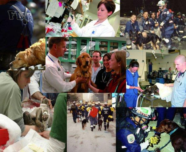 Health Care